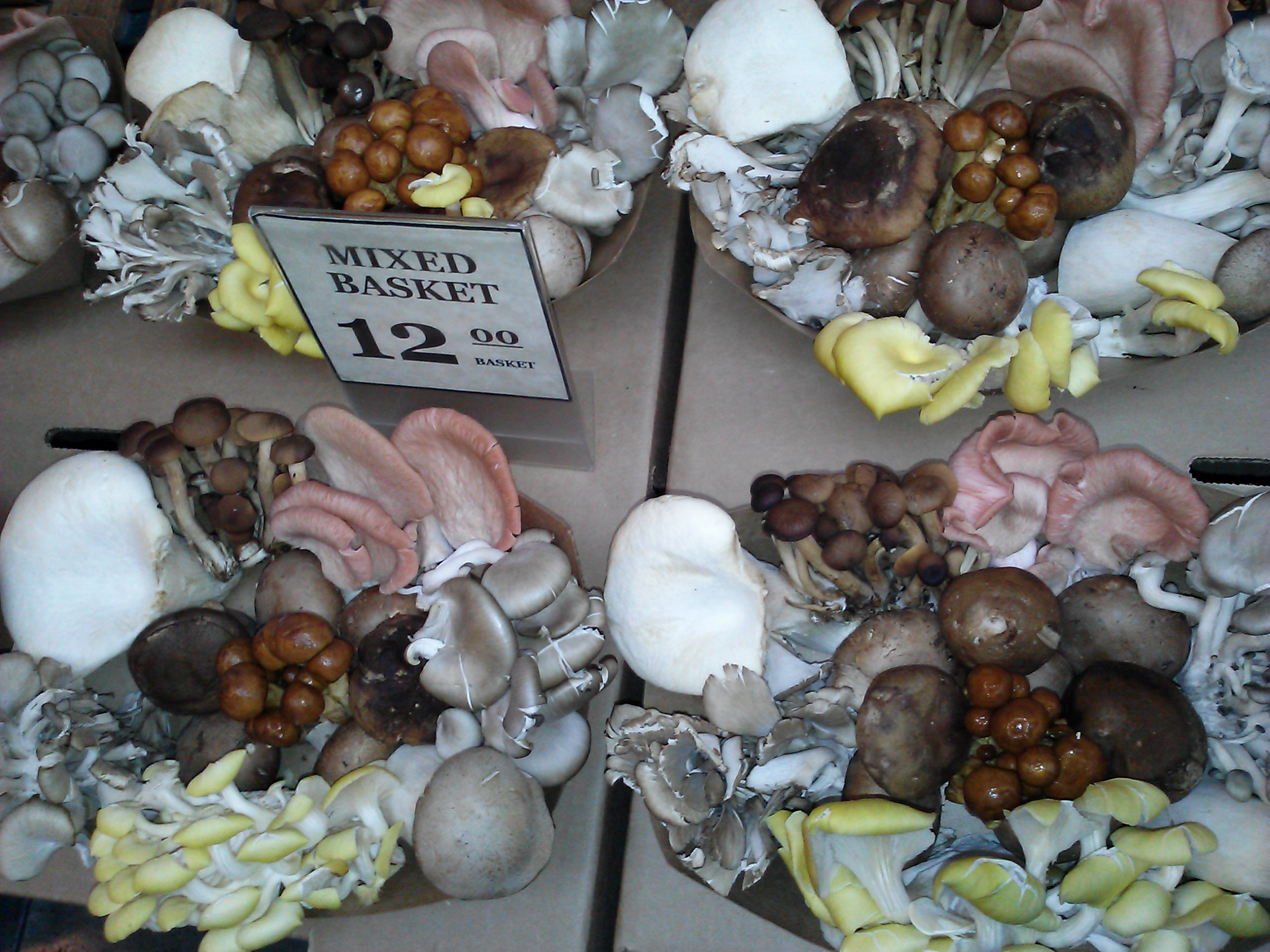 Gourmet mixed mushrooms at a San Francisco farmer's market